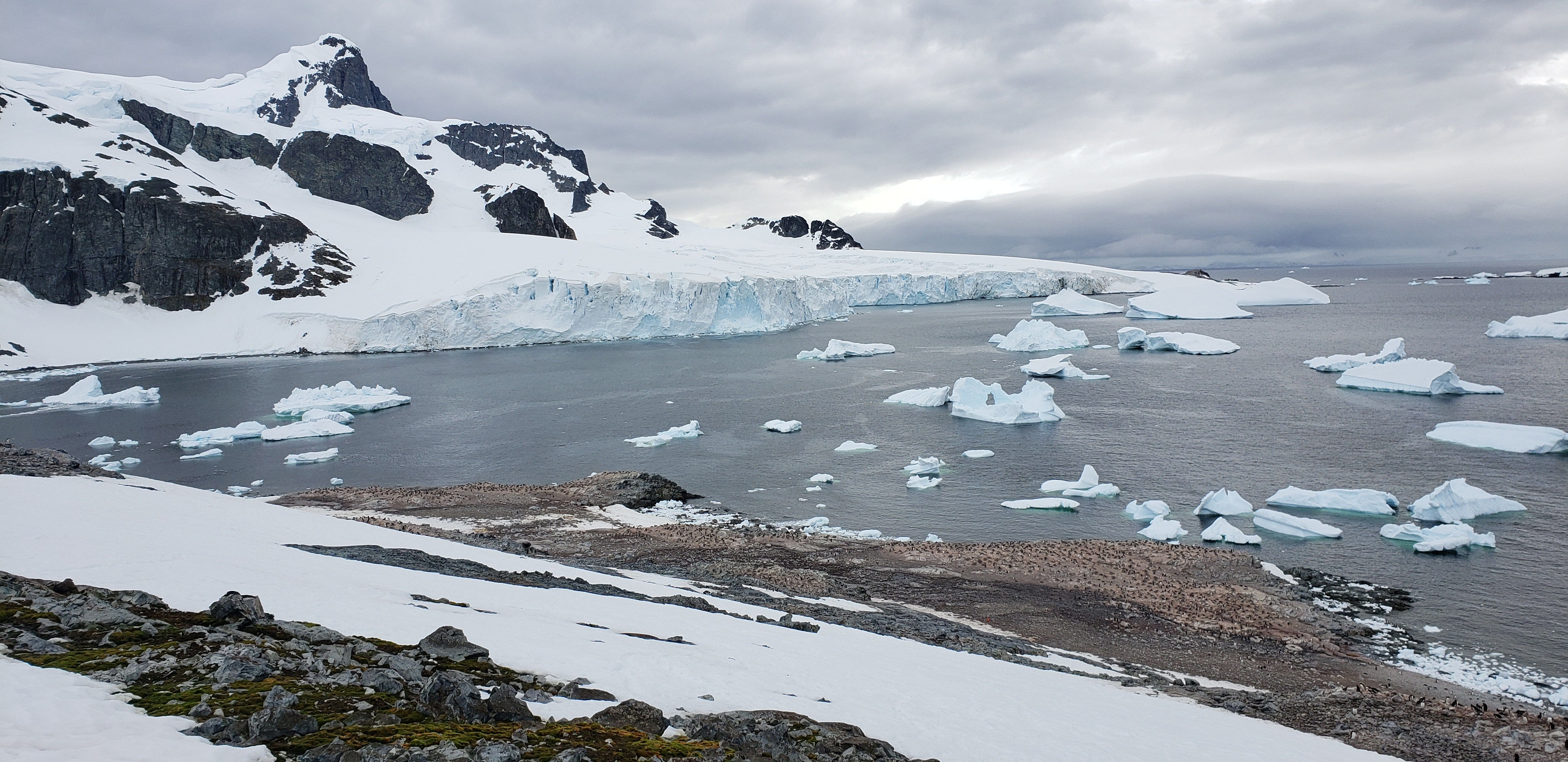 Cuverville Island overlook